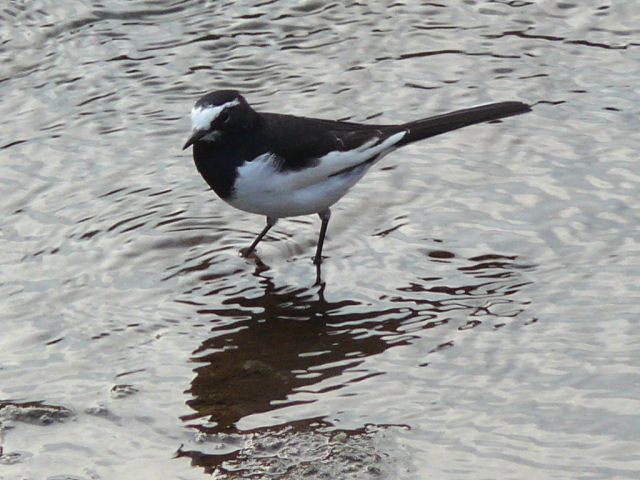 セグロセキレイ 撮影日：2006年10月12日 撮影地：平瀬川（神奈川県川崎市宮前区神木本町） 撮影者：cory 出典： "Seguro-sekirei" (Motacilla grandis, Japanese Wagtail) Date: 2006-10-12 (Oct 12, 2006) Place: Hirase-gawa River, Shiboku-honcho Miyamae Kawasaki Kanagawa Japan. Author: ISAKA Yoji (cory)